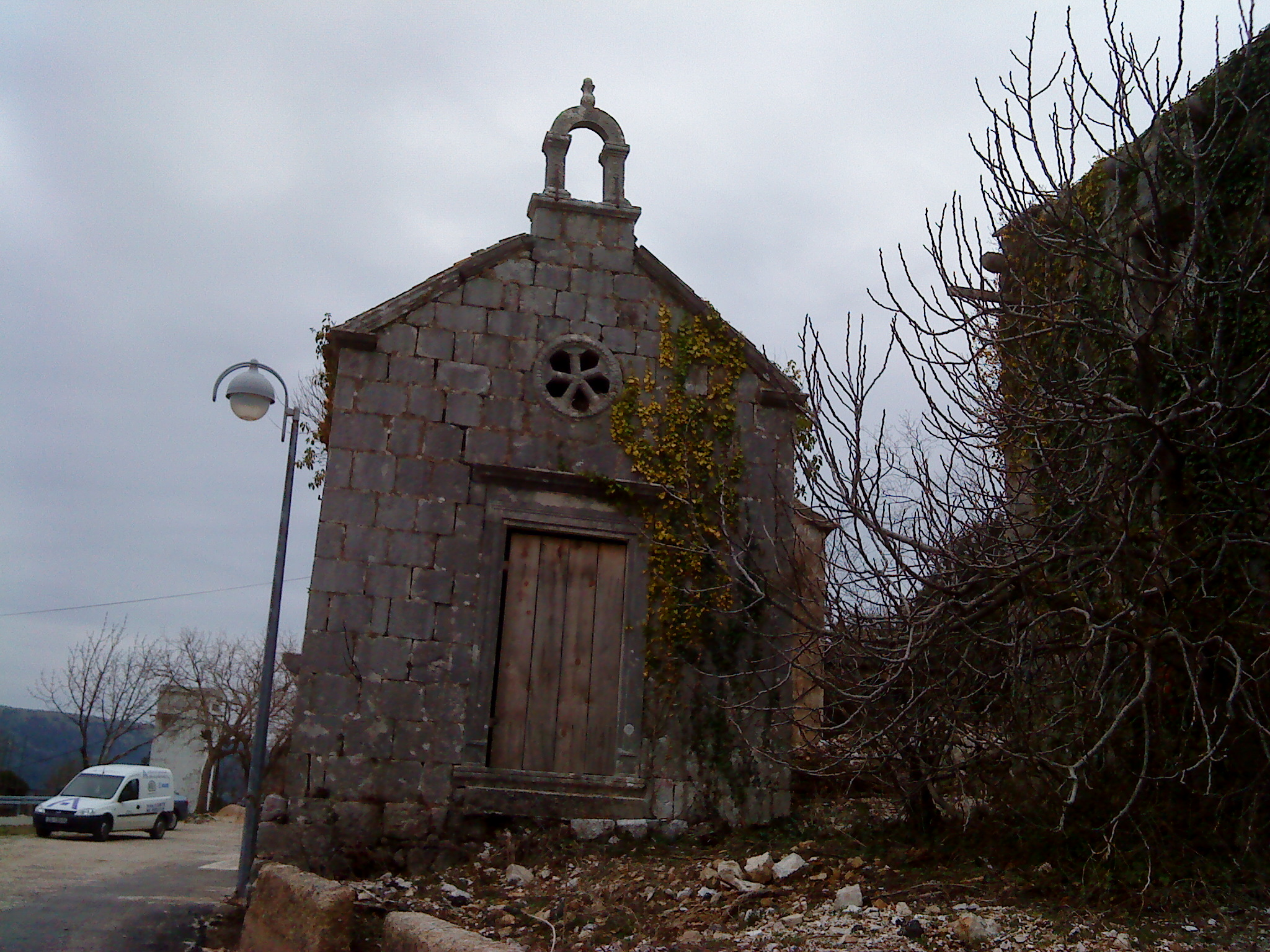 Church ruins in Pijavičino